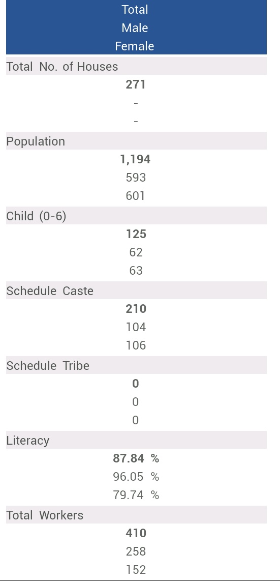 2011 census